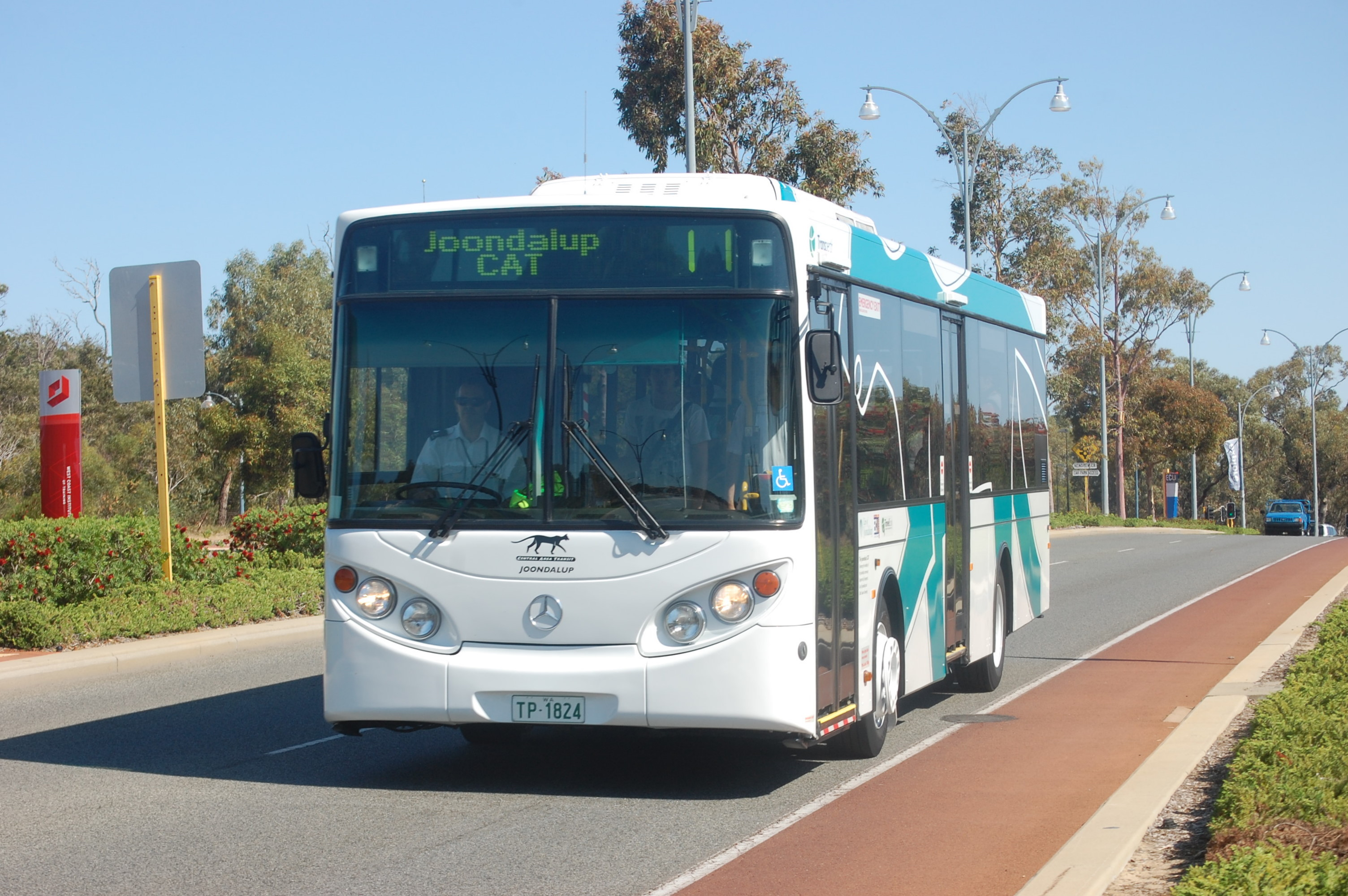 New Joondalup Cat Livery - Volgren CR225L bodied Mercedes-Benz O 405 NH (TP 1824, built 2001).